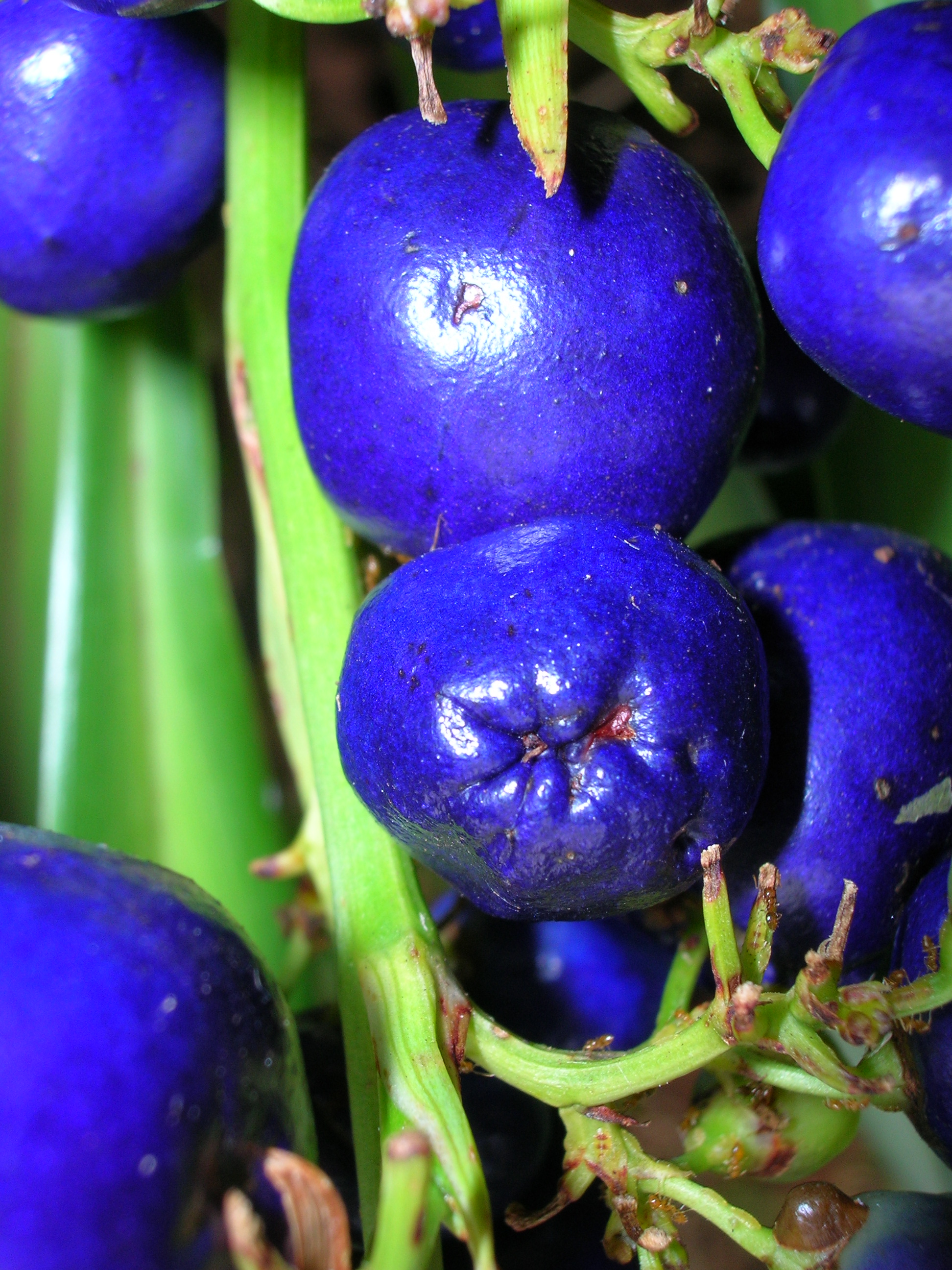 Dianella sandwicensis (fruit). Location: Maui, Makawao